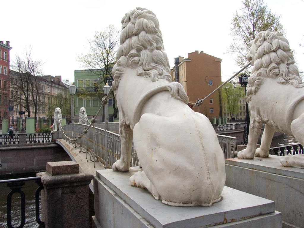 The Bridge of Four Lions in Saint Petersburg